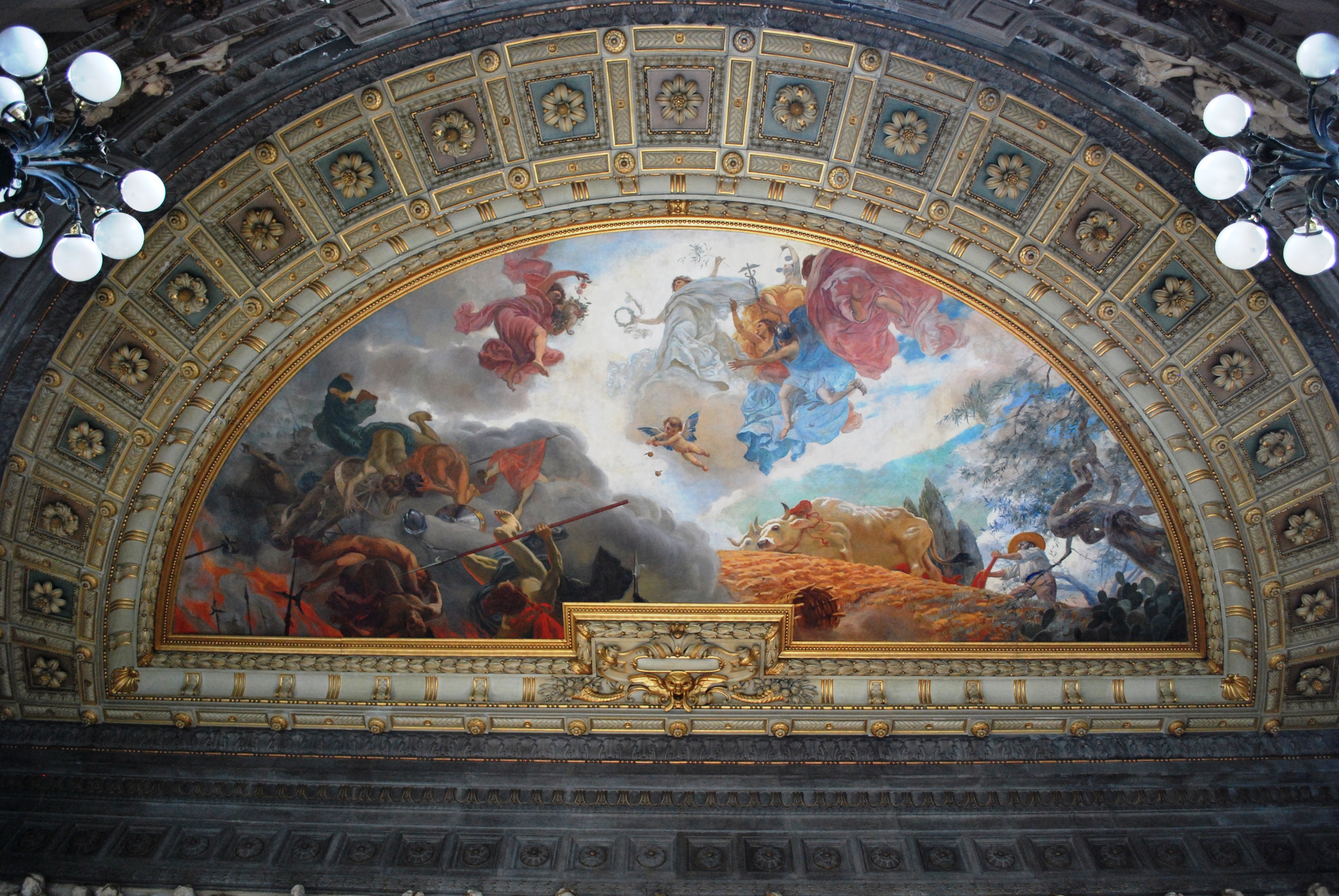 Mural on the ceiling of the main stairway of the Museo Nacional de Arte in Mexico City (author and title unknown)